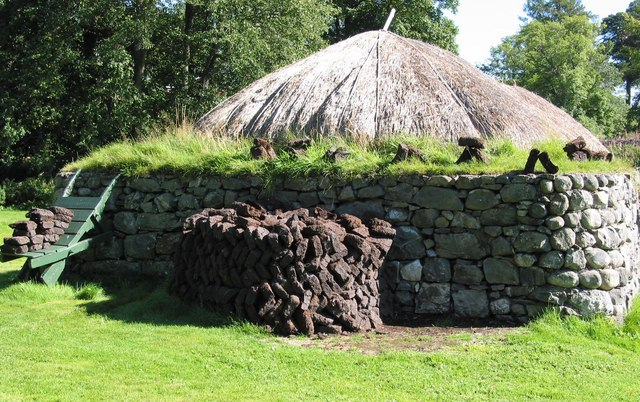 Tigh Dubh and peat stack Black House (Tigh Dubh), peat stack and barrow at the Highland Folk Museum Kingussie.